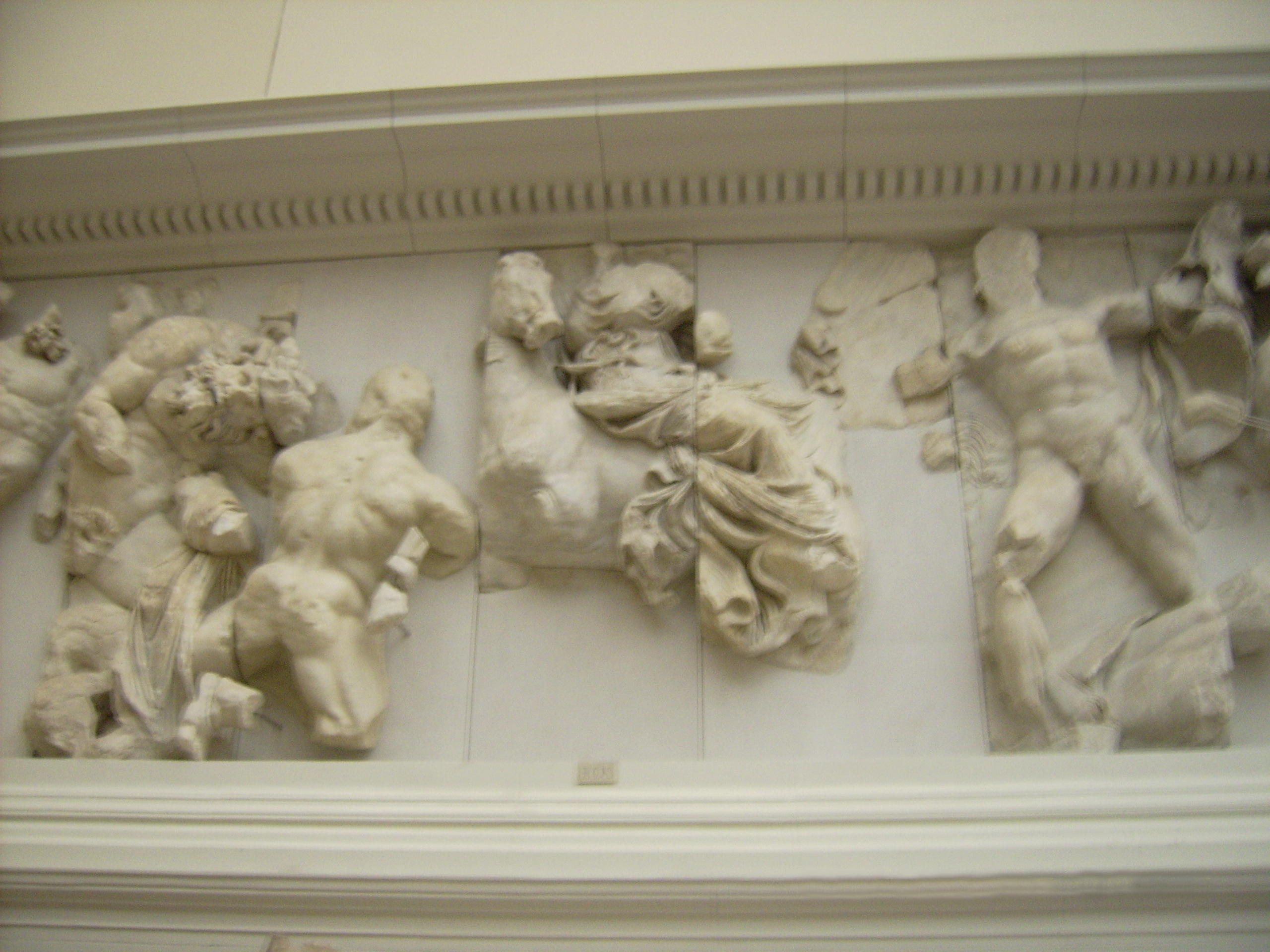 Eos